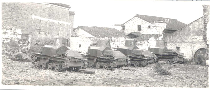 Type 92 Combat Cars of the 15th Infantry Group Tankette Unit at Wanshi Chin near Nanking in 1941